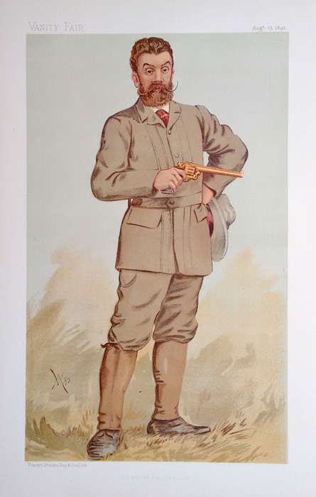 Men of the Day No.0573: Caricature of Mr W Winans. Caption reads: "The Record Revolver Shot"